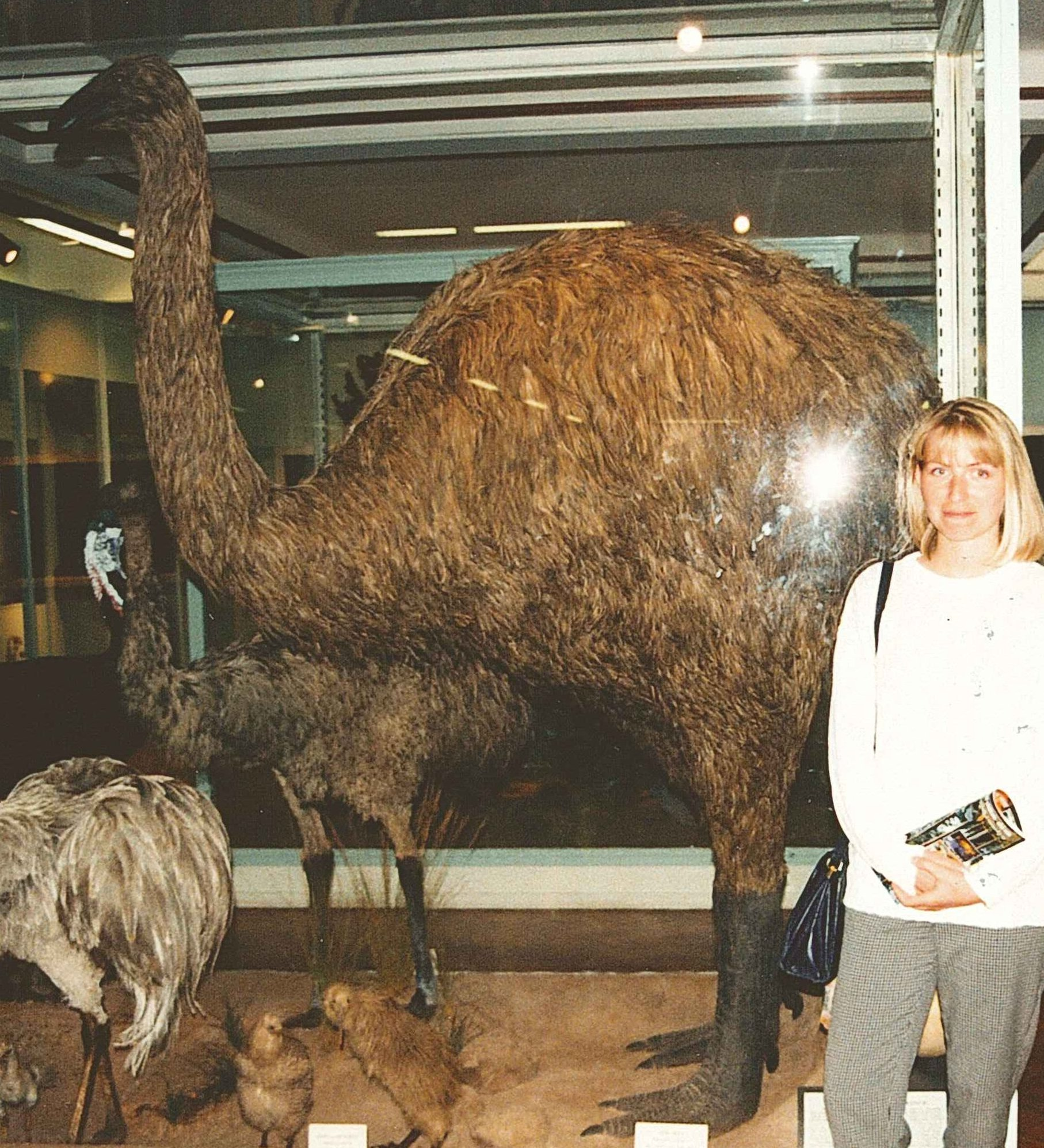 Giant Ostrich of Pietermaritzburg (Natal Museum) - South Africa Dinornis, no ostrich ('Struthio). Dysmorodrepanis (talk) 15:52, 6 August 2009 (UTC)